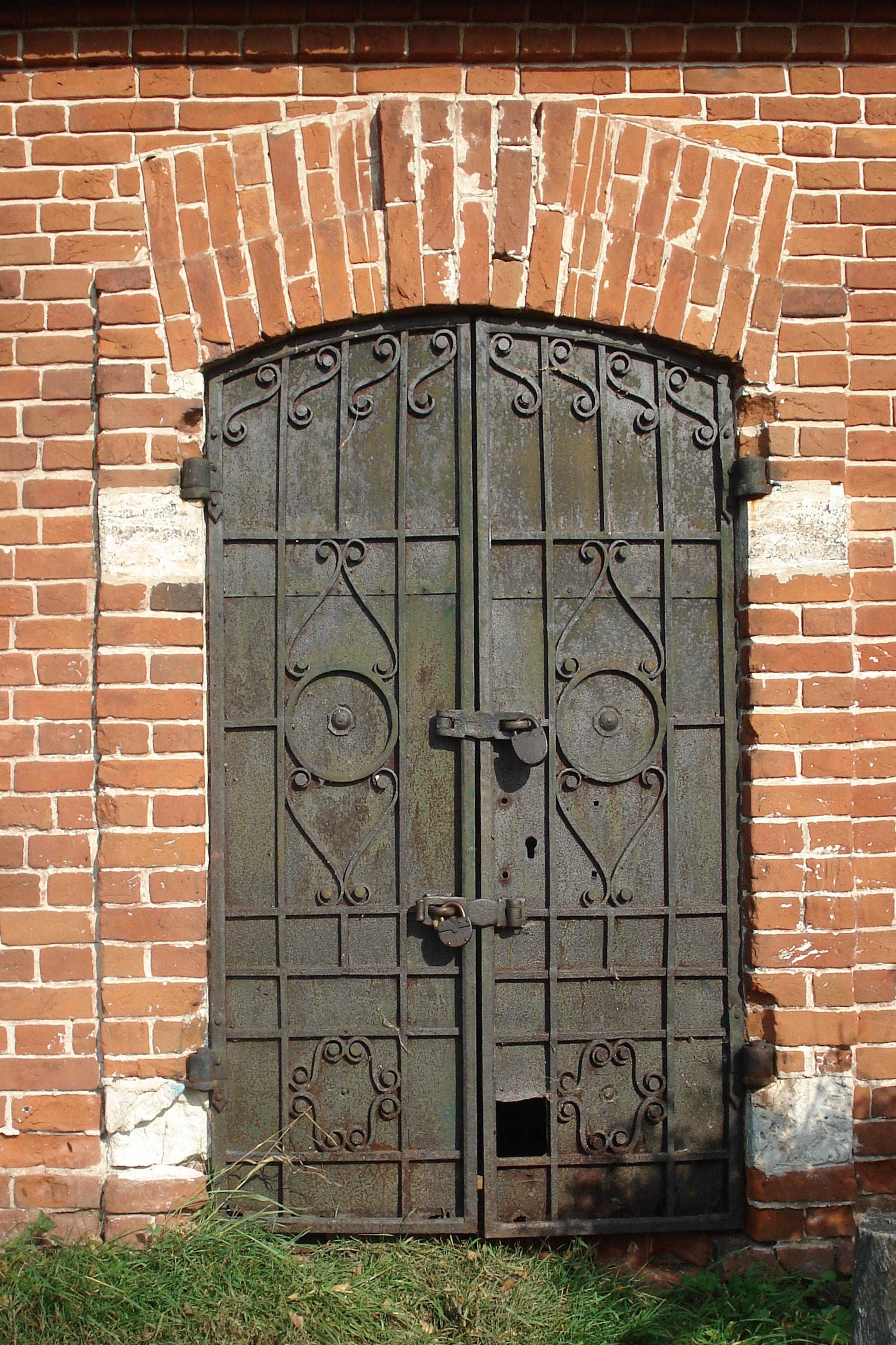 The Village of Sobolevo. Nizhegorodskaya oblast. Russia. The decorated door of one-storied (now) house.